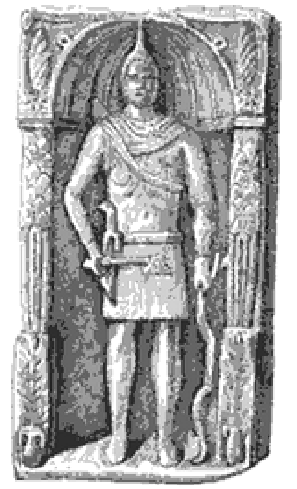 Second century tombstone of a soldier from Cohors I Hamiorum Sagittariorum, a regiment of bowmen from Syria. Found in Housesteads/Vercovicium (Hadrians Wall). The tombstone is uninscribed, the relief shows an archer, lightly armoured in a short tunic with a peculiarly pointed helmet upon his head and a military cloak about his shoulders, the man is depicted armed with a curved short bow held by his left side, a dagger on his belt and a hatchet grasped in his right hand; the soldier also appears to have a quiver of arrows suspended from a baldric at his right shoulder.